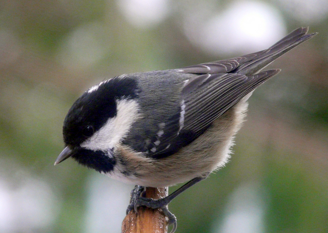 Coal Tit, Inshriach